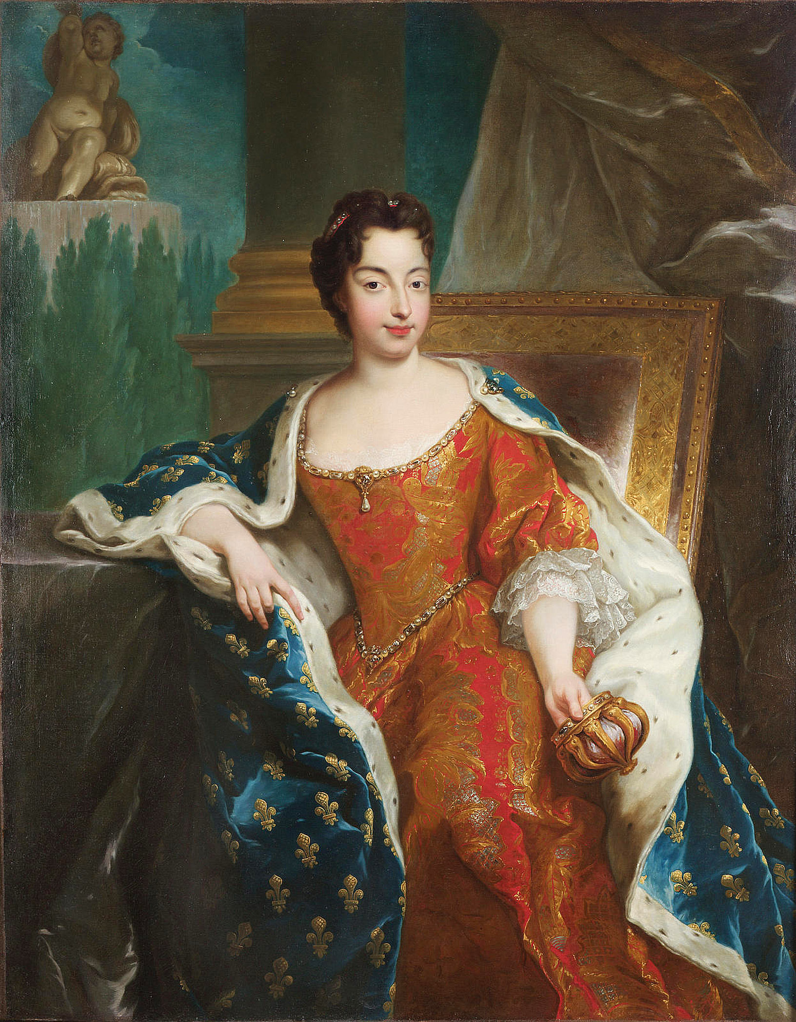 Portrait of a Dauphine of France, presumably Marie Adélaïde of Savoy (1685-1712) or her mother-in-law Maria Anna Victoria of Bavaria (1660-1690); known as la Grande Dauphine, she holds the coronet of the Dauphine and wears the Fleur-de-Lis of the House of Bourbon